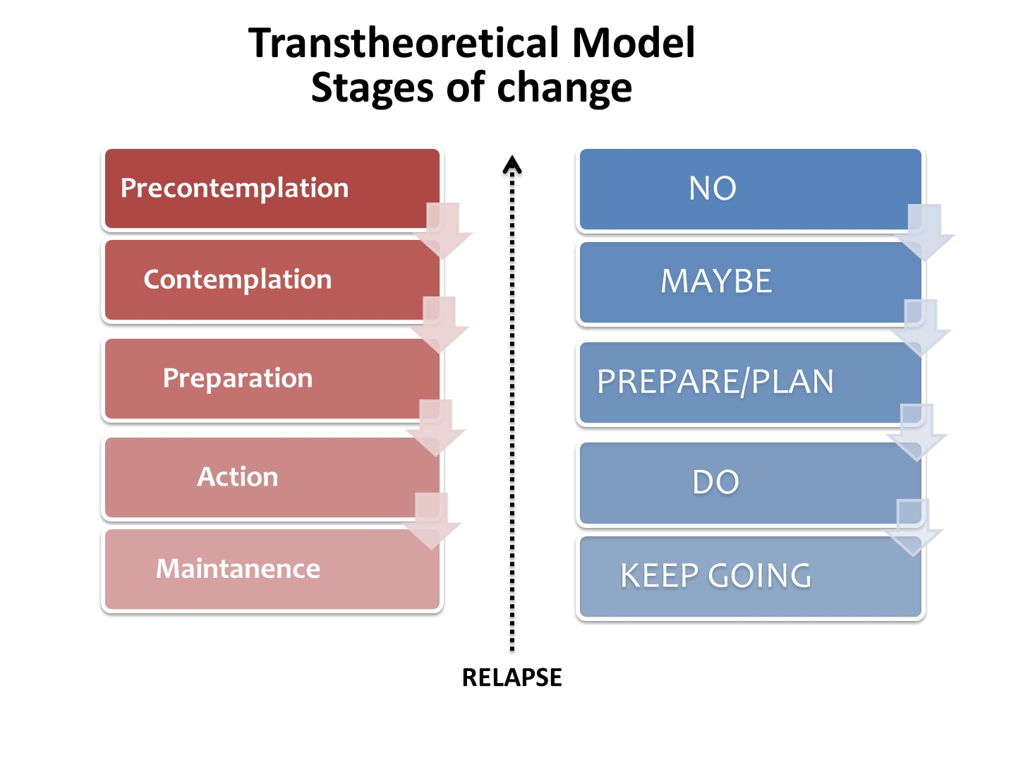 This image demonstrates the stages of behaviour change through the original transtheoretical model and the same model in simplified terminology